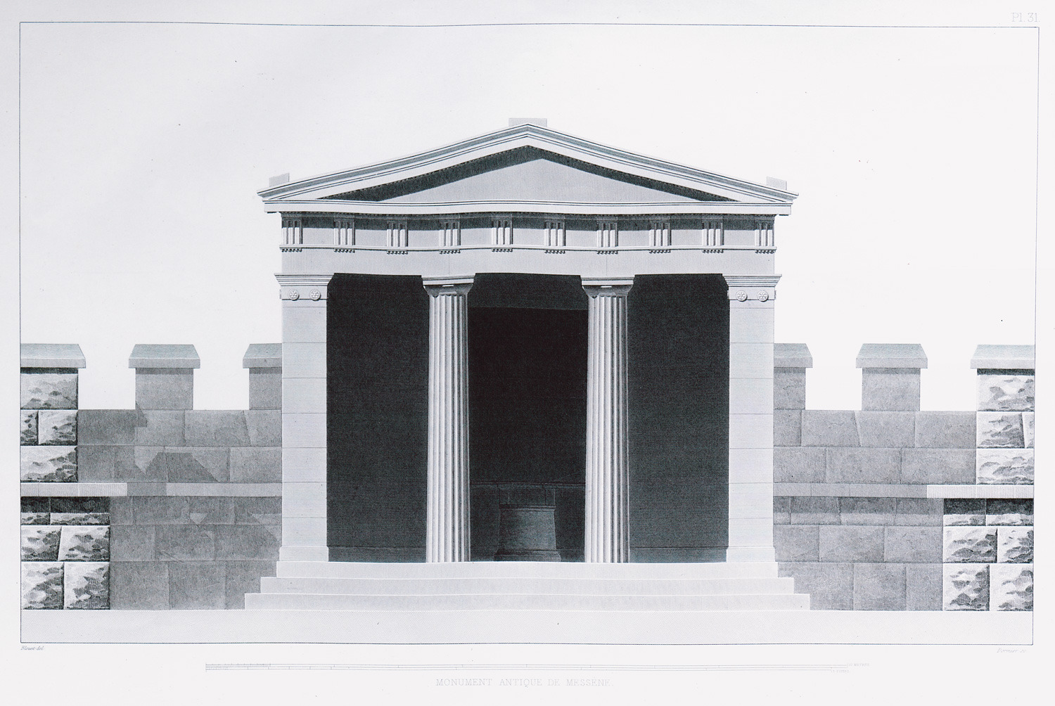 Guillaume-Abel Blouet. Expédition scientifique de Morée, Ordonnée par le Gouvernement français: Architecture, I-VI, Paris, Firmin Didot, 1831-1838.